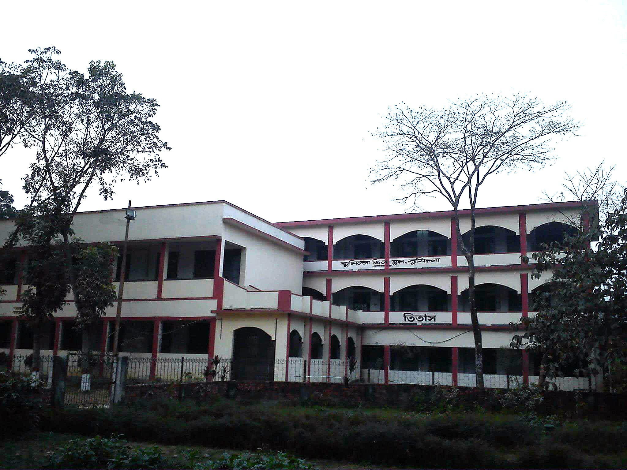 Titas building (তিতাস ভবন)